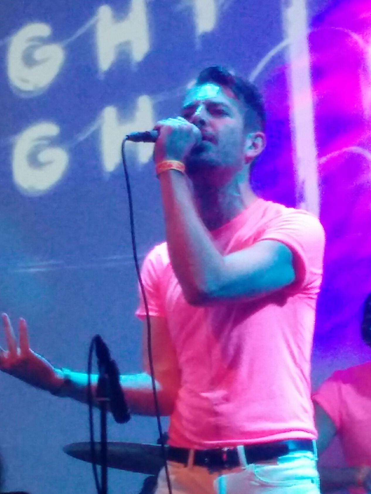 Bright Light Bright Light performing "Moves" at Rickshaw Stop in San Francisco, California, United States